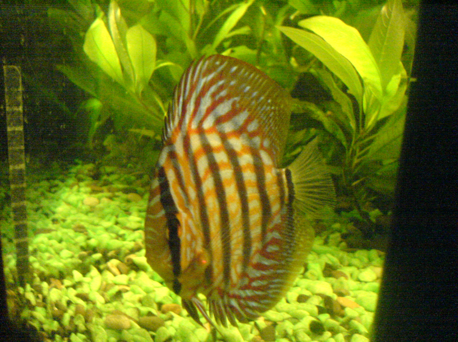 Red Turquise Discus Fish